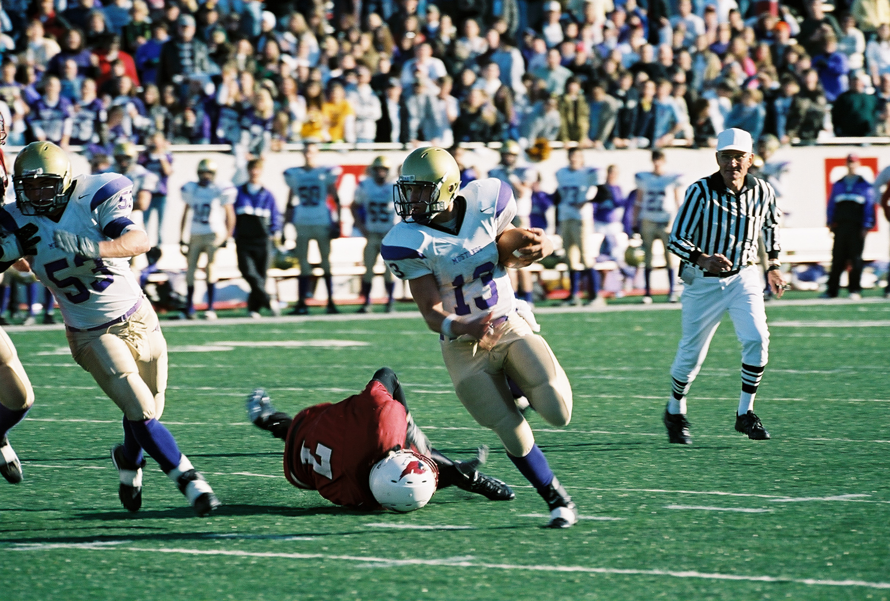 Jesse Gates carries the ball against the Pine Bluff Dollarway Cardinals in the Arkansas Class AAA state championship game.